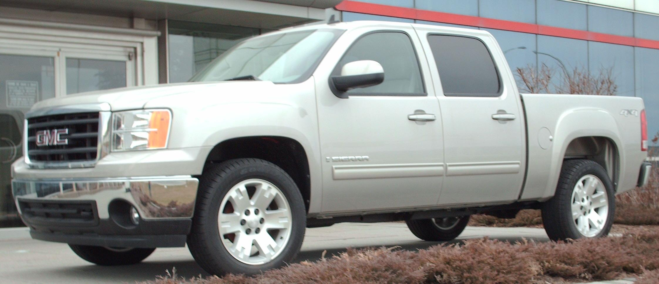 2007 GMC Sierra Crew cab photographed in Montreal, Quebec, Canada.